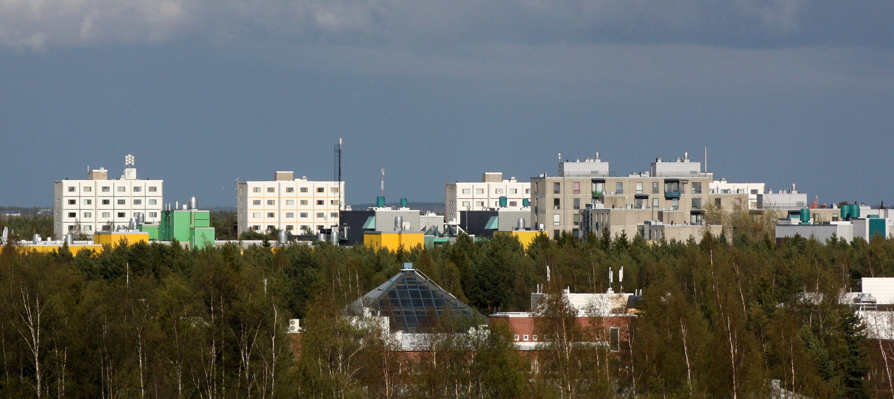 View of Linnanmaa Campus of Oulu University.